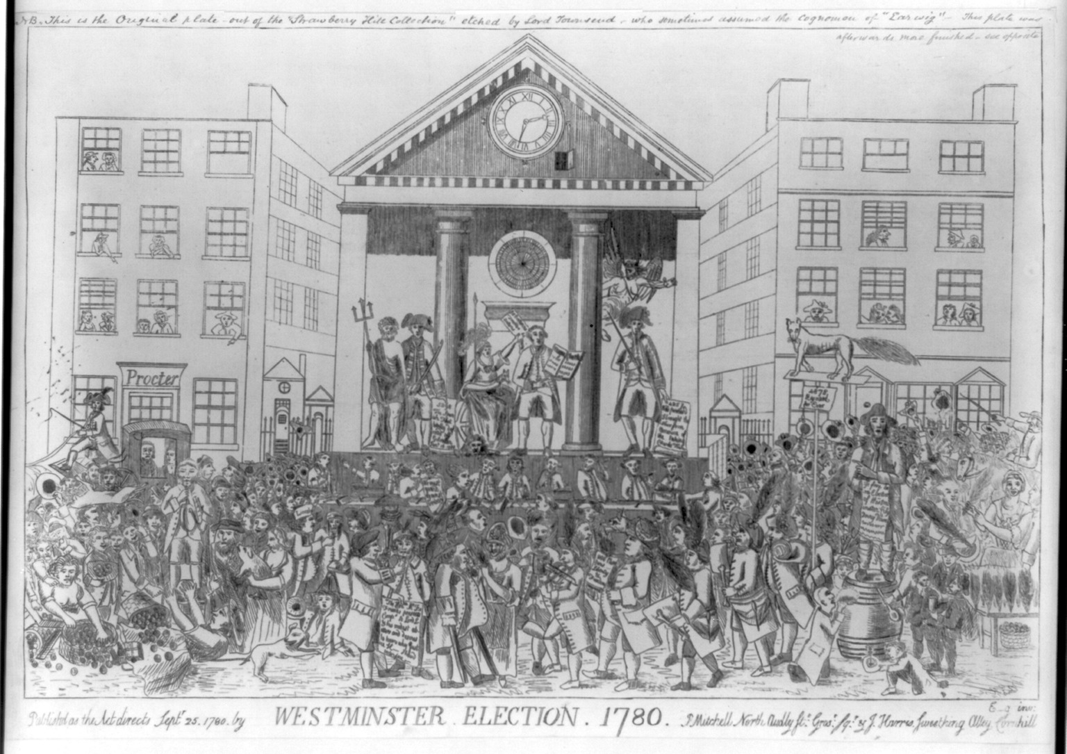 Title: Westminster election 1780 Abstract: Print shows Lord Lincoln standing on the right of St. Paul's portico, Charles James Fox standing in the center with Britannia and the British lion, and on the left, James Young, acting as proxy for Admiral Rodney, with Neptune, during the Westminster election; a large crowd fills the foreground. Physical description: 1 print : etching. Notes: Forms part of: British Cartoon Prints Collection (Library of Congress).; Inscribed in ink at top: N.B. This is the original plate - out of the "Strawberry Hill Collection" etched by Lord Townsend who sometimes assumed the cognomen of "Earwig" - this plate was afterwards more finished - see opposite.; E--g inv.; Published in: The American Revolution in drawings and prints; a checklist of 1765-1790 graphics in the Library of Congress / Compiled by Donald H. Cresswell, with a foreword by Sinclair H. Hitchings. Washington : [For sale by the Supt. of Docs., U.S. Govt. Print. Off.], 1975, no. 775.; Title from item.